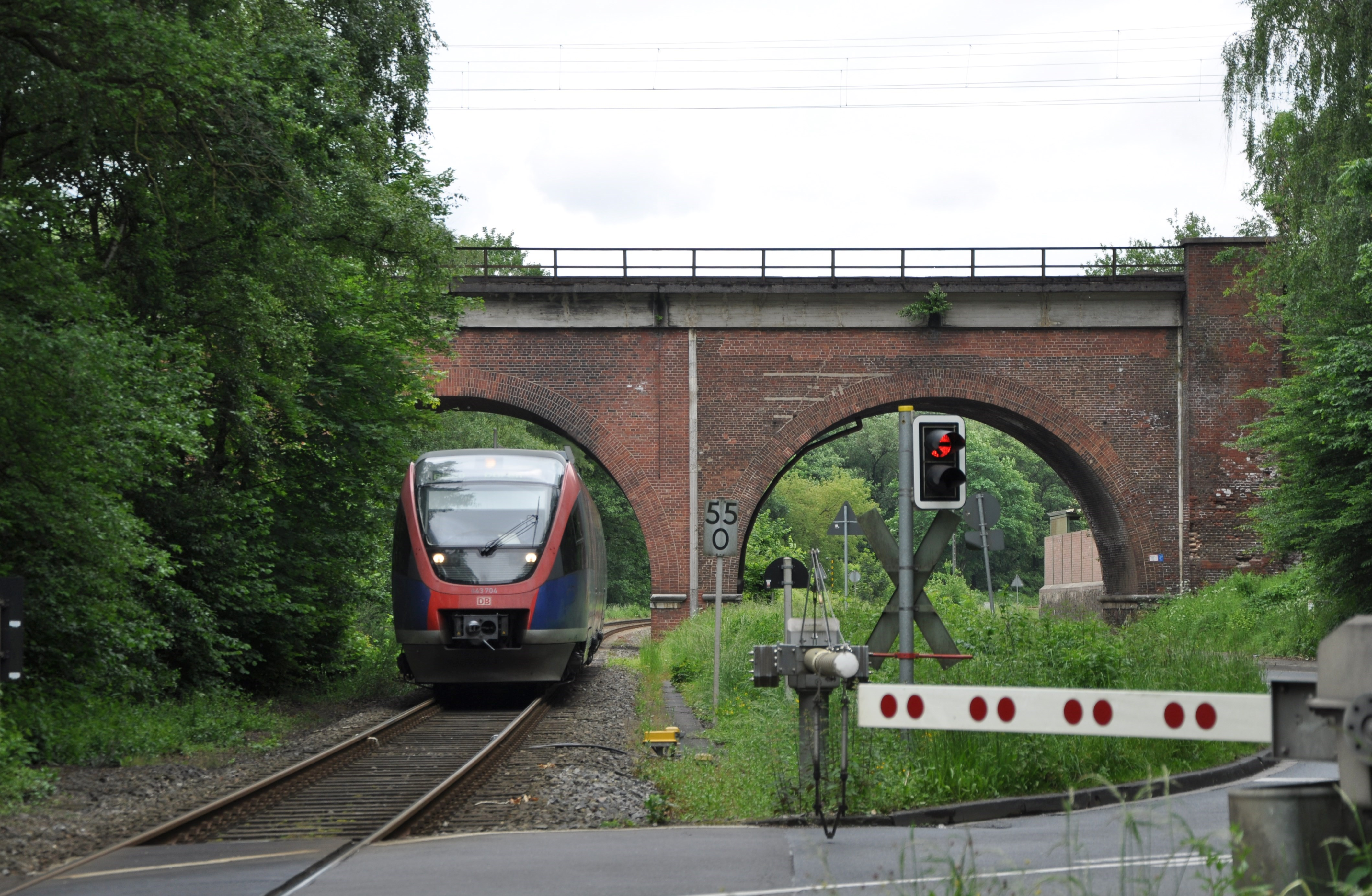 A Talent DMU of Euregiobahn passes Dreibogenbrücke in Eschweiler.